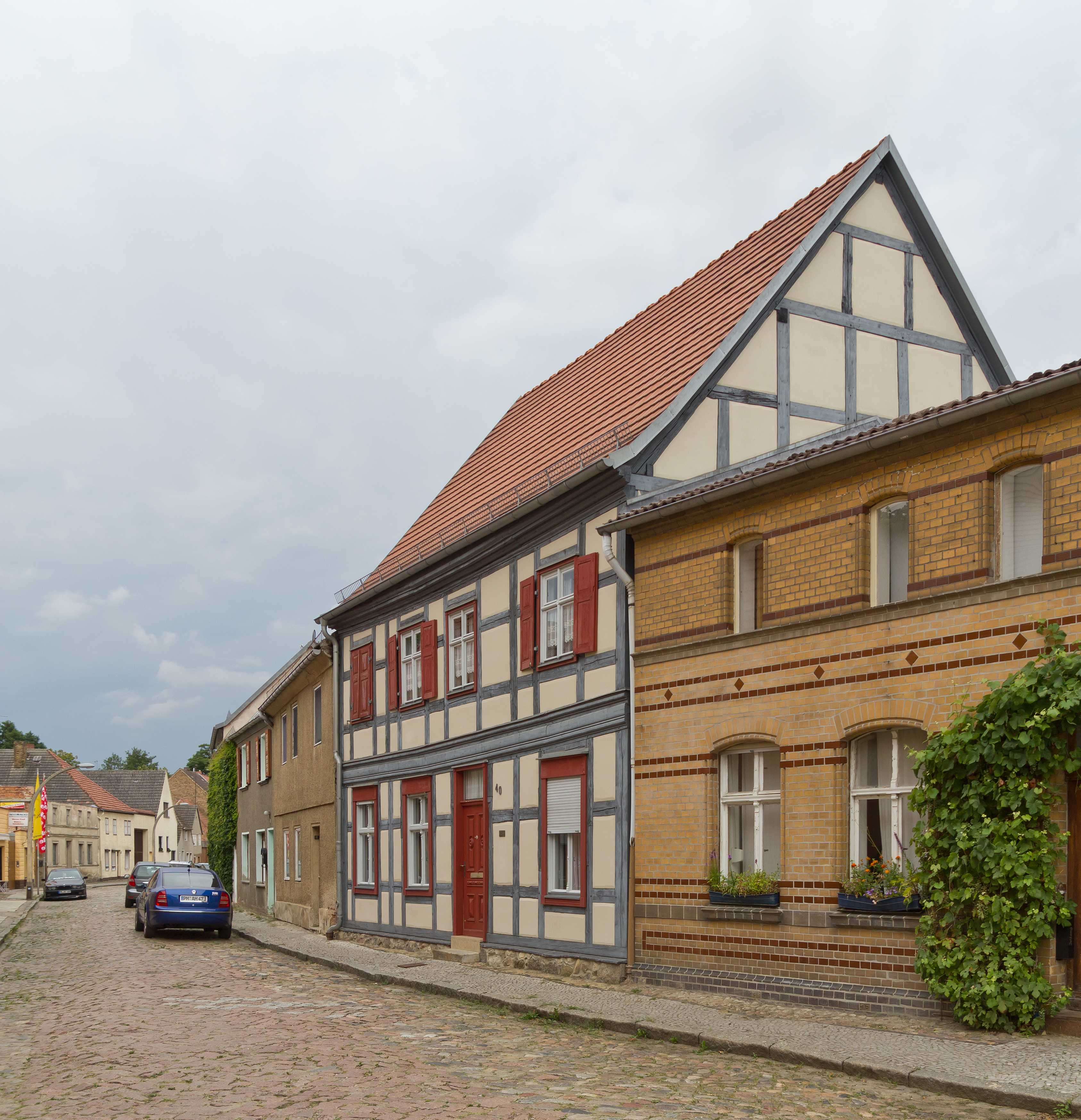 Timber framing in Treuenbrietzen, Brandenburg, Germany